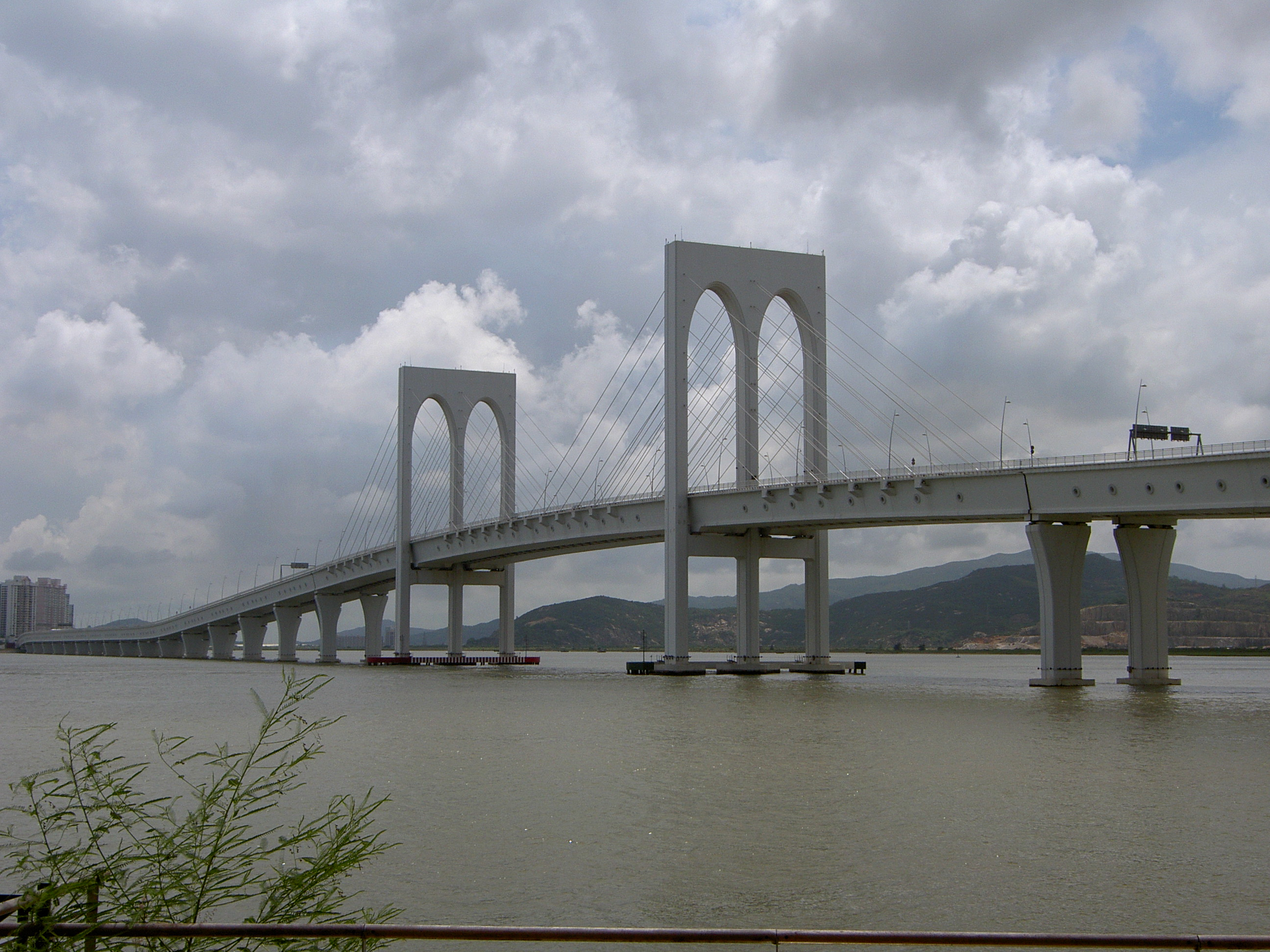 Sai Van Bridge is the third bridge connecting Macau Peninsula and Taipa. Photo taken by Netsonfong.